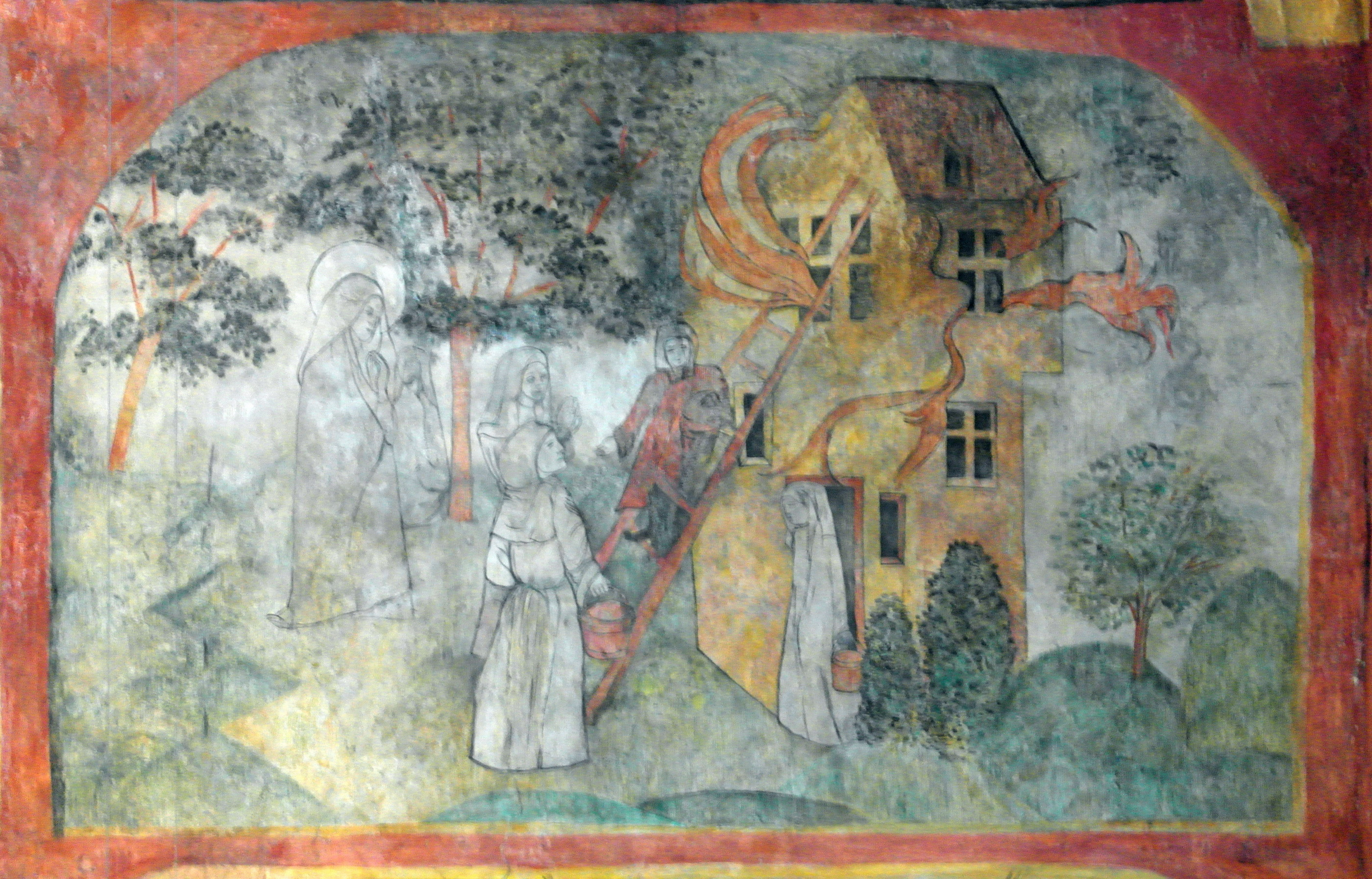 Detail of a 15th-century wall painting with scenes from the life and legend of Saint Gertrude of Nivelles in a chapel of the south aisle in Kruisherenkerk, Maastricht, the Netherlands. This fragment depicts Saint Getrude quenching a fire. The Gothic church and monastery of the Croziers (or Crutched Friars) was converted into a luxury hotel (Kruisherenhotel) in 2005. The church interior was left intact.